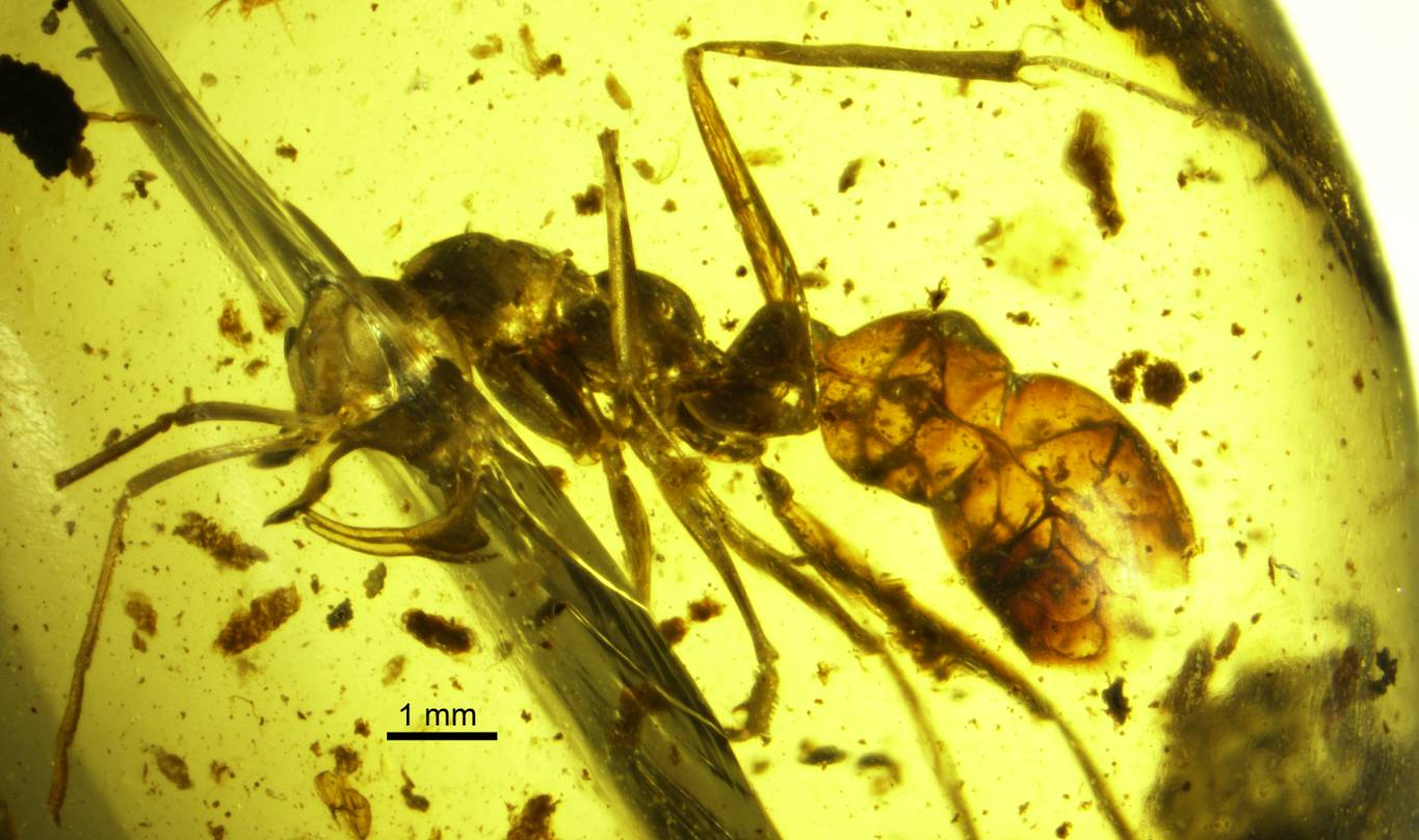 Profile view of a Linguamyrmex vladi worker head. Holotype specimen AMNH-BUPH01, Paleontology Department of the American Museum of Natural History, United States Burmese amber, Earliest Cenomanian; Kachin State, Myanmar